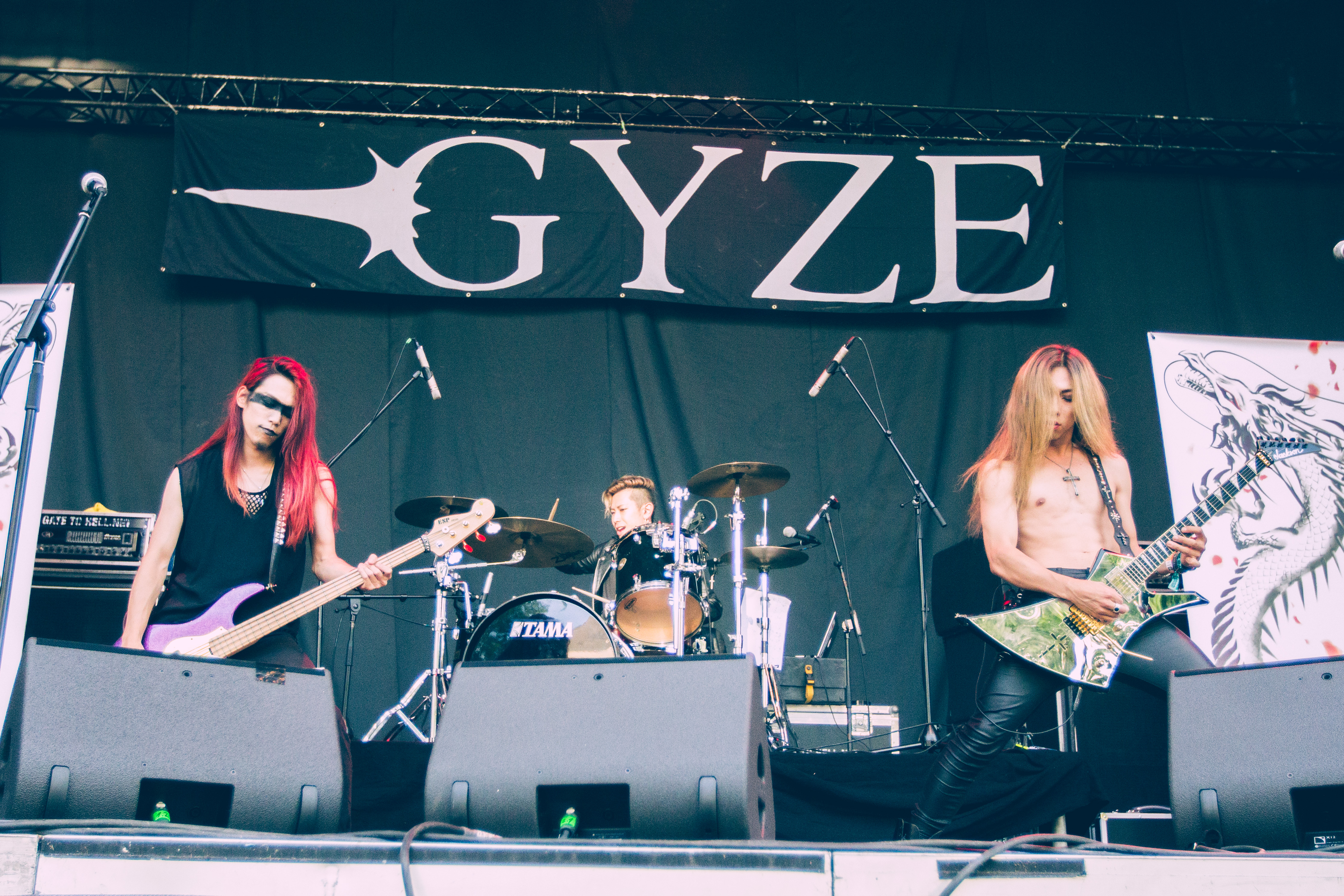 Aruta Watanabe (Bass Guitar), Shuji Shinomoto (Drums), Ryoji Shinomoto (Lead Guitar) of Japanese melodic death metal group Gyze at Turock Open Air (2018), Viehofer Platz / Turock, Essen (DEU) /// leokreissig.de for Wikimedia Commons